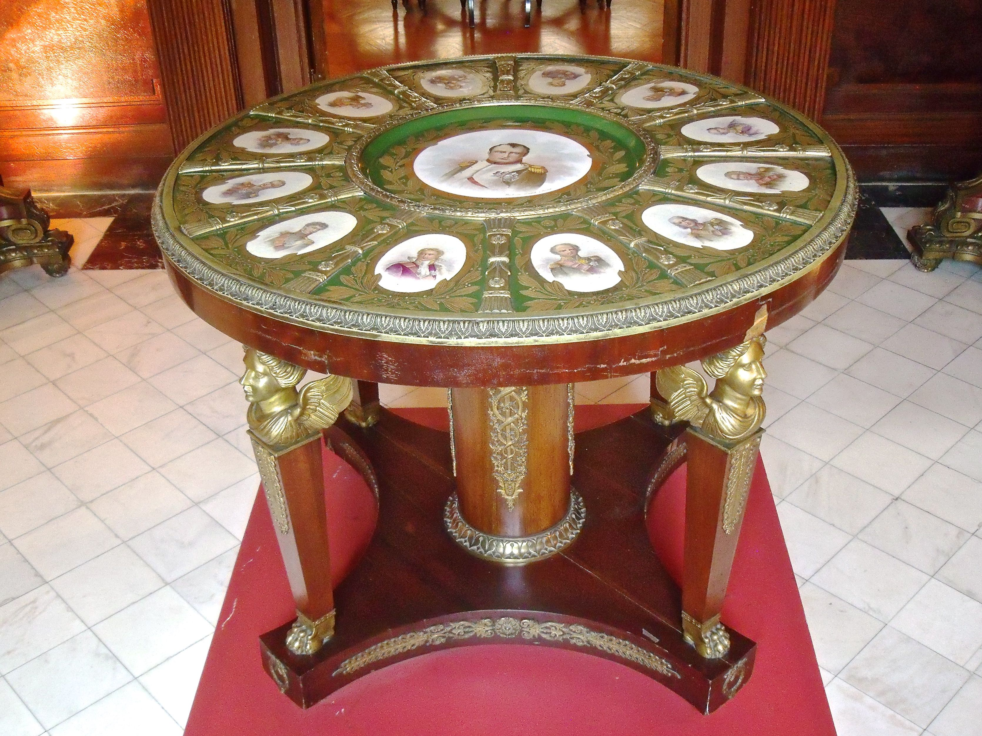 Empire style pedestal table